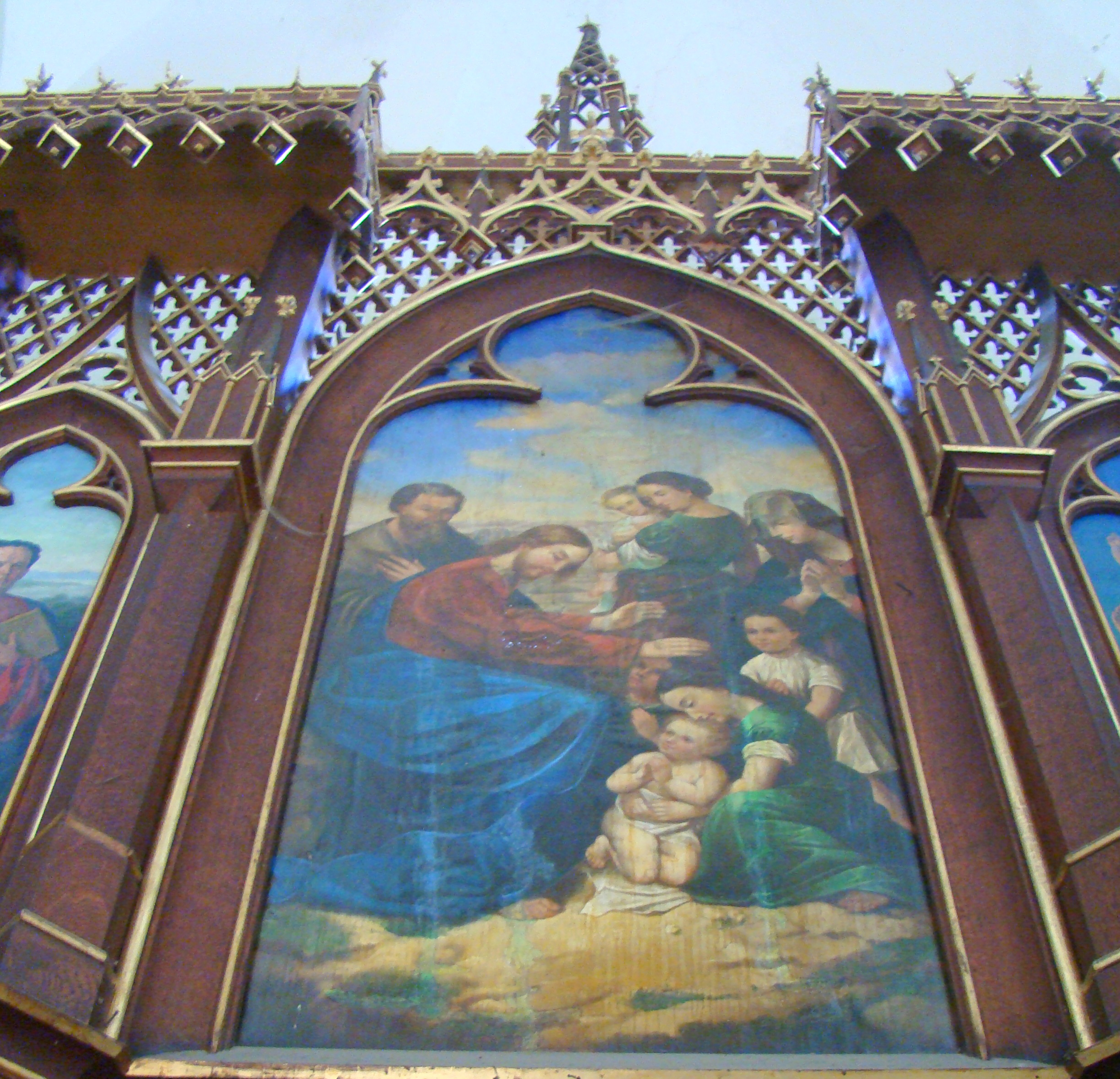 Lutheran church in Șercaia, Brașov County, Romania